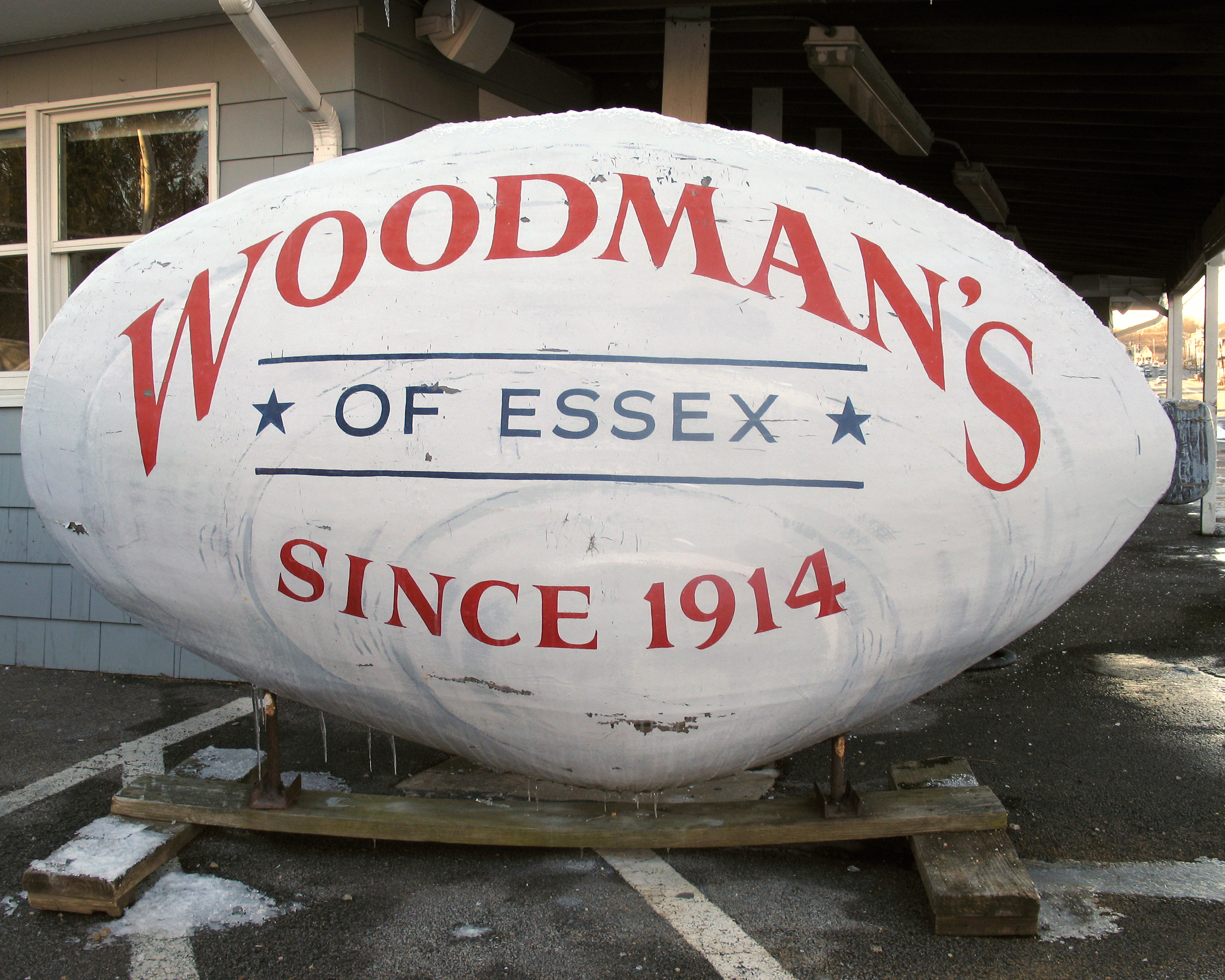 Woodman’s, the best fried clams in Massachusetts and Jumping Boy eats here! Sign outside Woodman's of Essex.